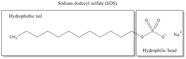 structure of SDS